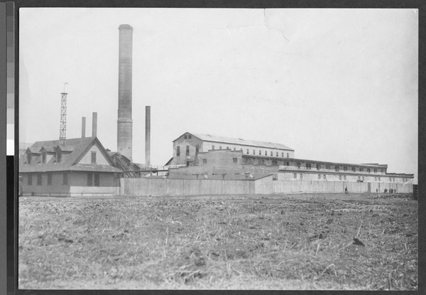 A factory on Barren Island in Brooklyn, New York, in the collection of the Brooklyn Public Library. Original description: "Image represented is one of a related set (NEIG 0003, NEIG 0356), some of which may also be described in this new record; Three views, in different sizes, of factories on Barren Island. 0356 shows portion of Jamaica Bay in foreground. Buildings on Barren Island were demolished in 1939 when the Belt Parkway was constructed. One of the images is not dated."